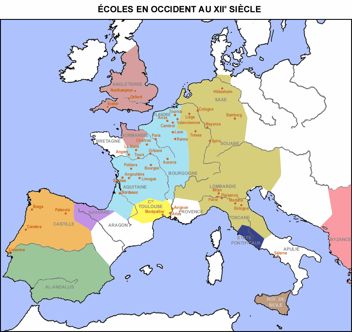 Schools in Western Europe, 12th century